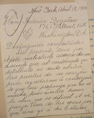 April 1904 lettter written by Isabel Gonzalez